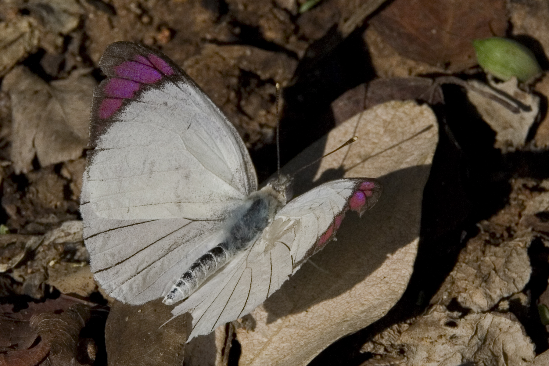 Colotis ione (Godart, 1819), Purple Tip